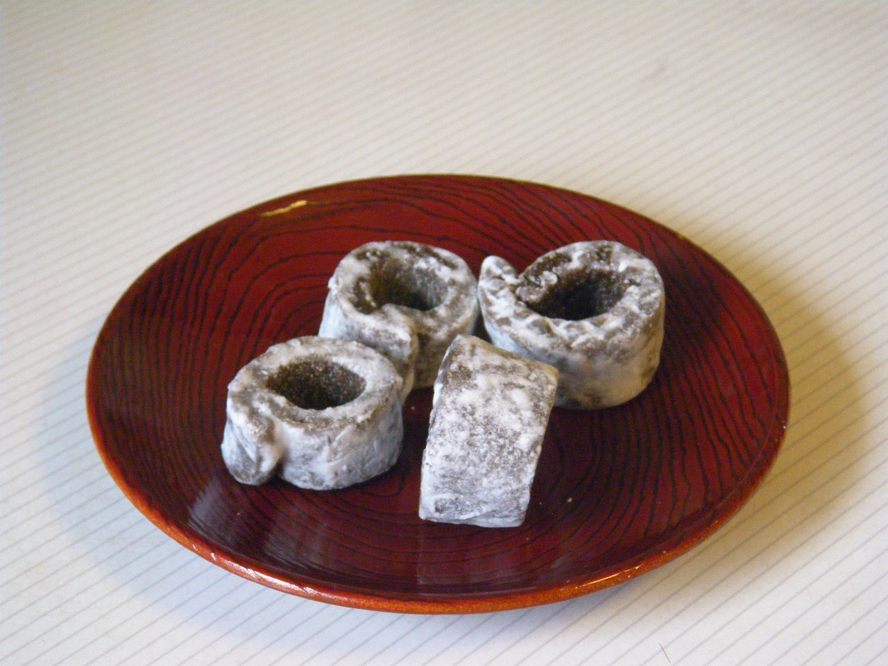 Japanese cheap snack food (dagasshi). Made by Kumagai-ya.